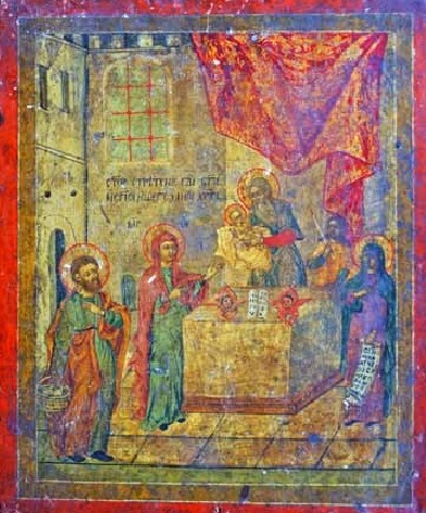 The Presentation of Christ Icon, Saint George Church in Lazaropole, late 18 Century, painted by Nedelko from Rosoki